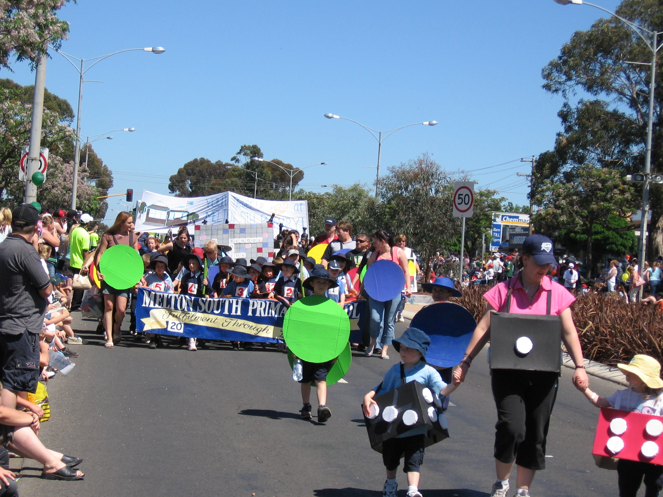 The 2005 Djerriwarrh Festival street parade, High St, Melton, Victoria.